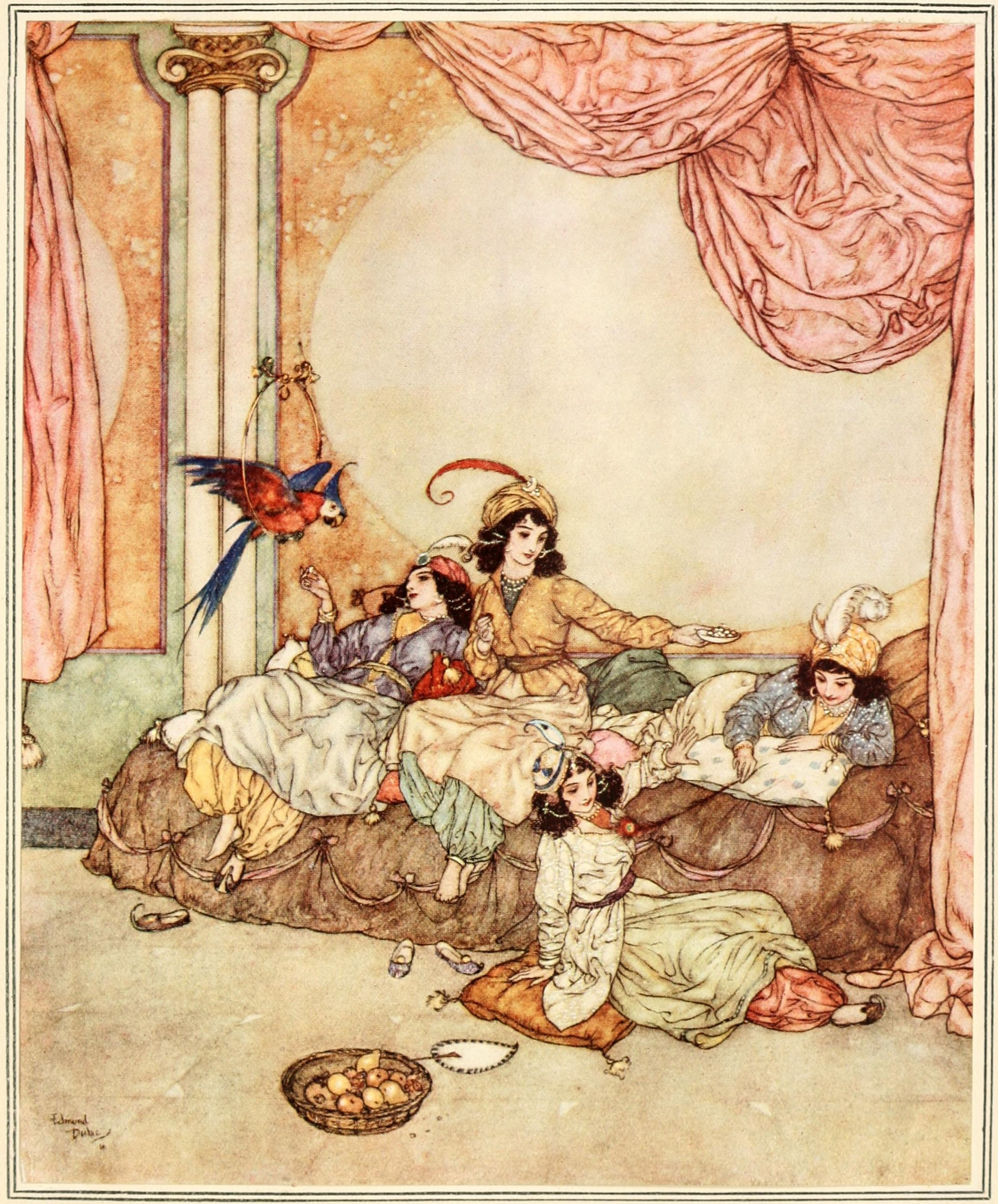 "They overran the house without loss of time.", from Arthur Quiller-Couch's book The Sleeping Beauty and Other Fairy Tales From the Old French (1910) (link to page), illustrated by Edmund Dulac. This illustration is from the famous folktale "Bluebeard".